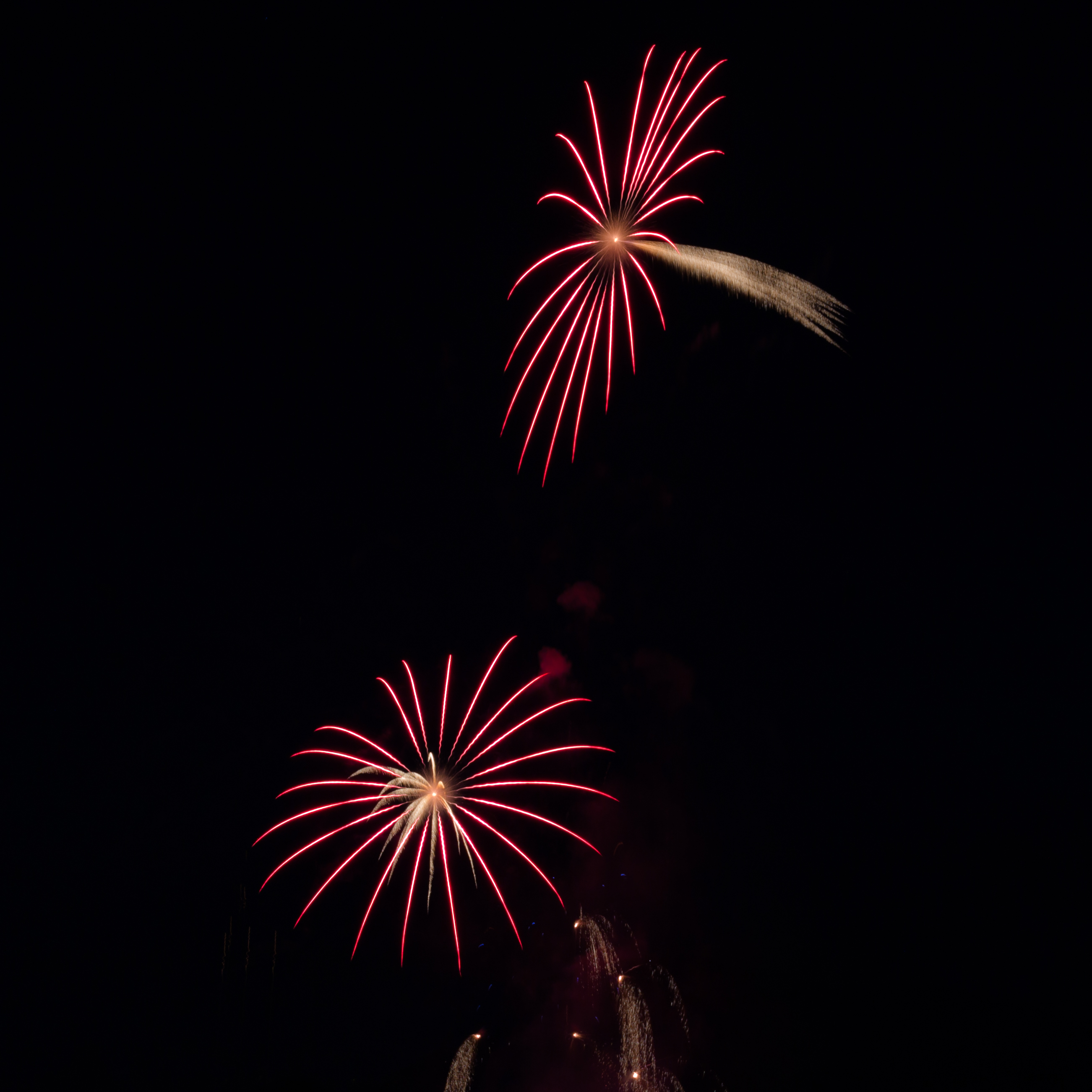 Fireworks in Annecy, France.